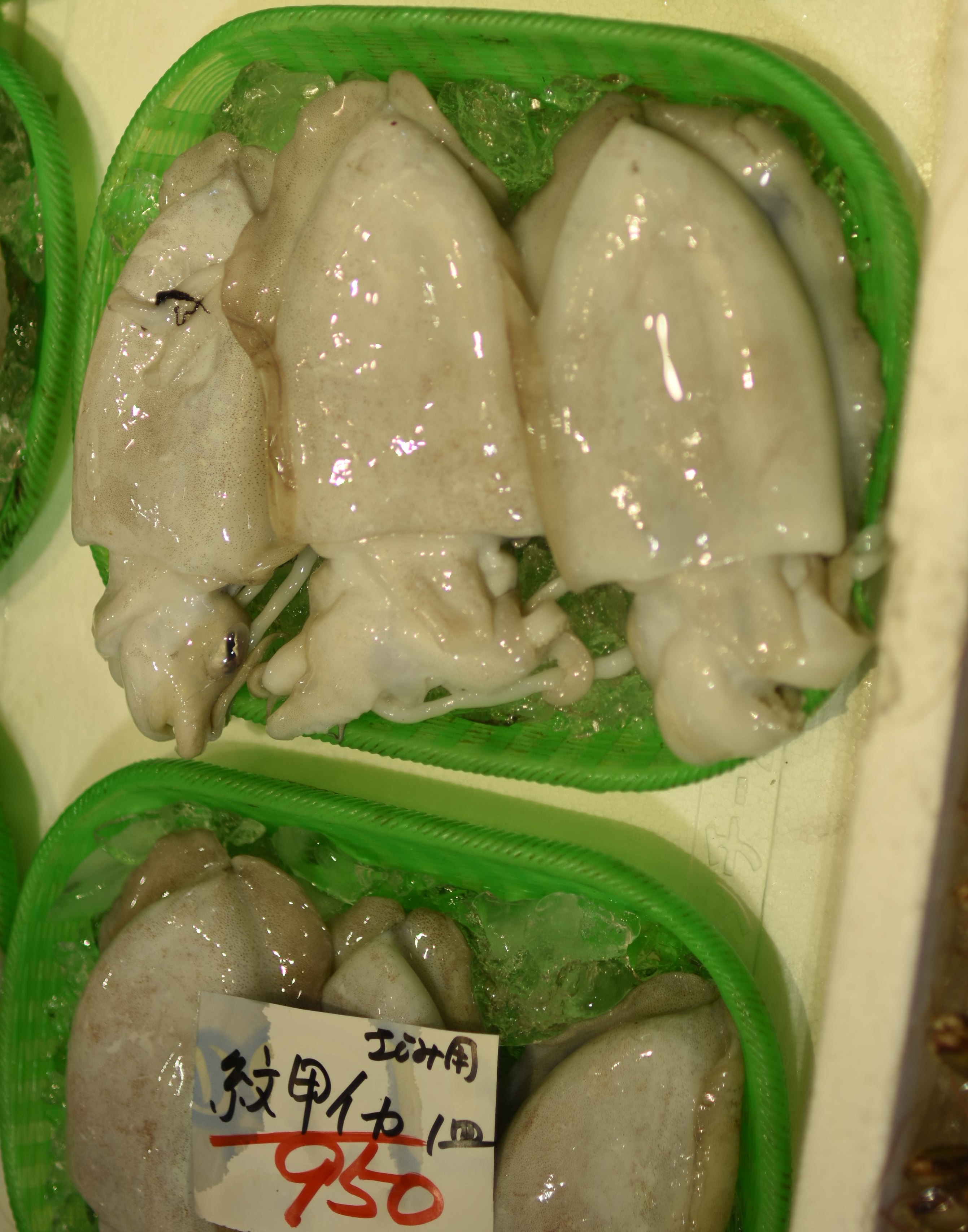 "Mongo-ika" in Yawatahama.